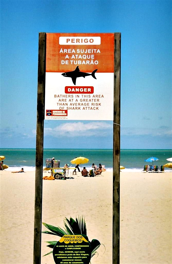 Sign warning of shark attacks at Boa Viagem Beach in Recife, Brazil.